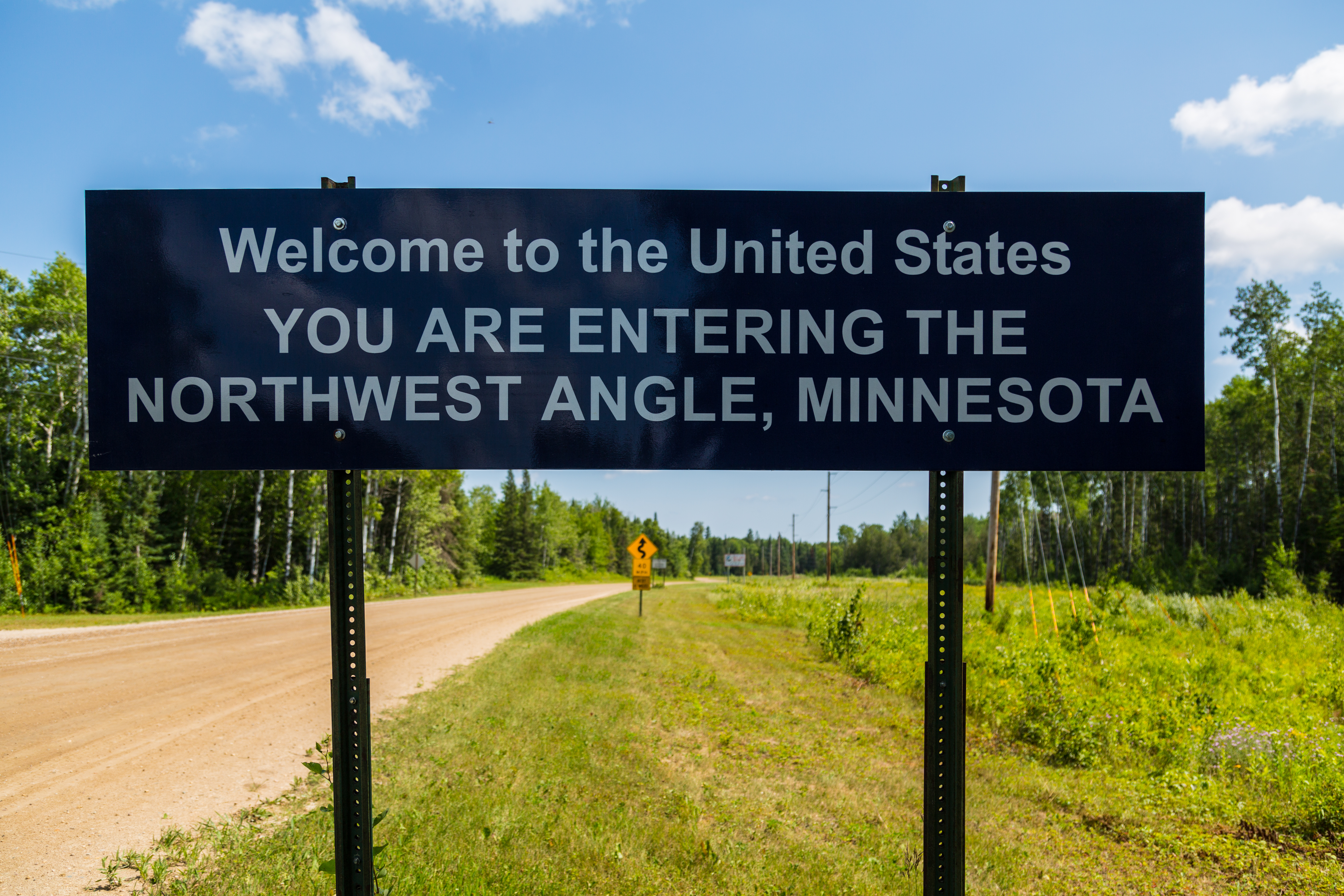 A sign marks the entrance to the Northwest Angle of Minnesota, from rural Manitoba, Canada.